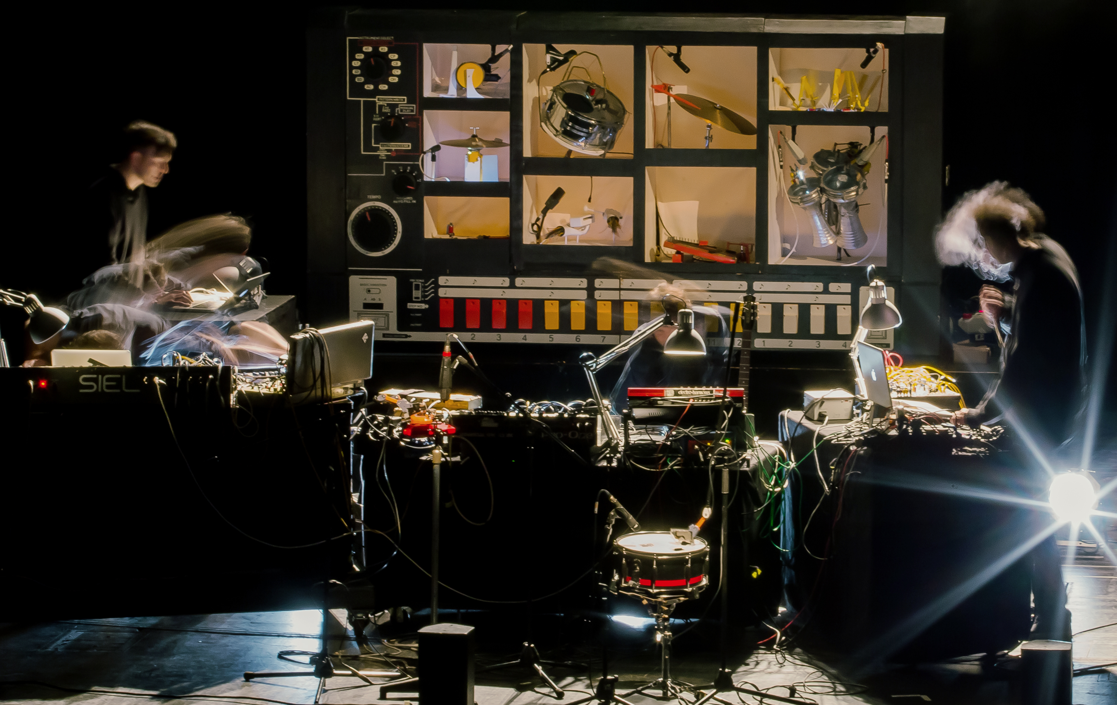 Mouse on Mars Live in Concert